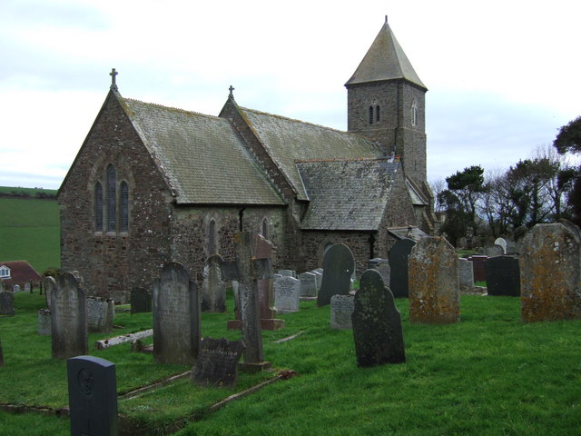 Holy Trinity, Galmpton Built in 1866-7 when the church over the hill at South Huish was abandoned, and some way west of the main part of the modern village. "Quite austere" Early English, say Cherry and Pevsner.